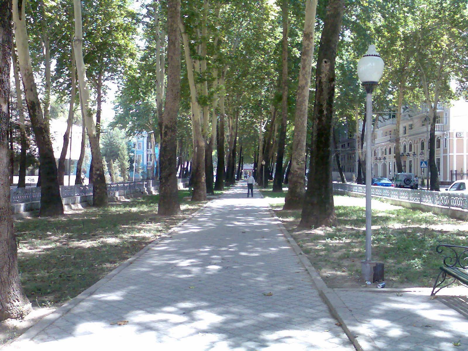 Rudaki Avenue sidewalk, Dushanbe